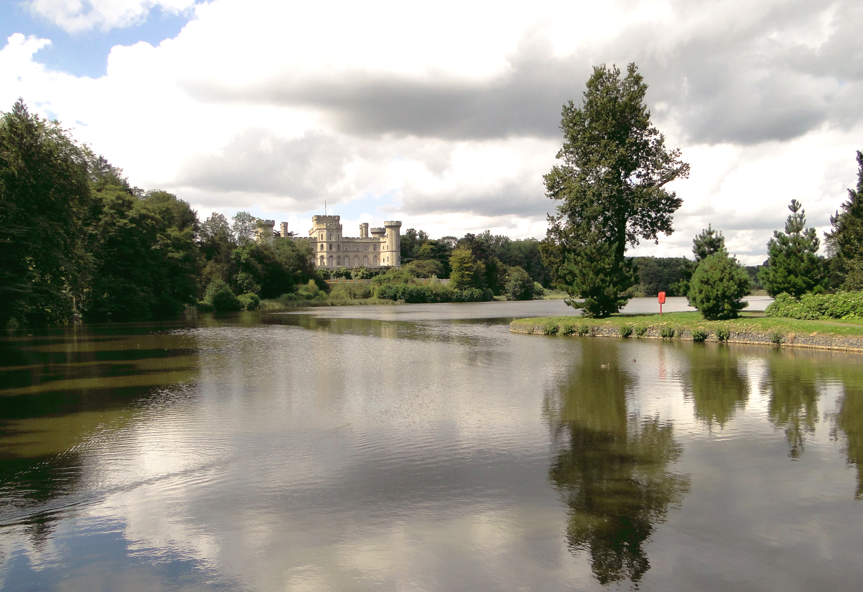 Eastnor Castle. Smirke's pile, seen from across the lake.